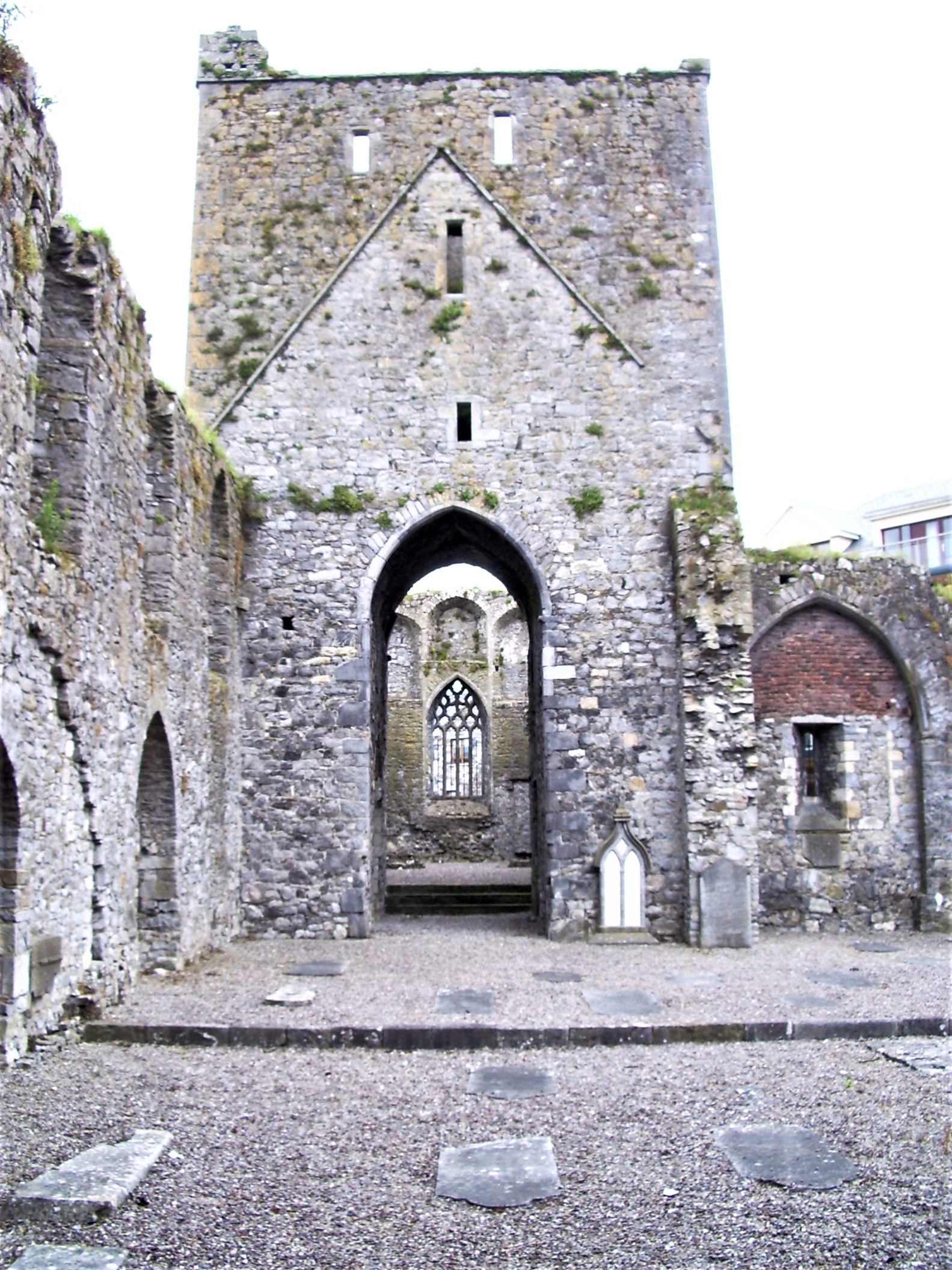 Dominican Friary, Cashel